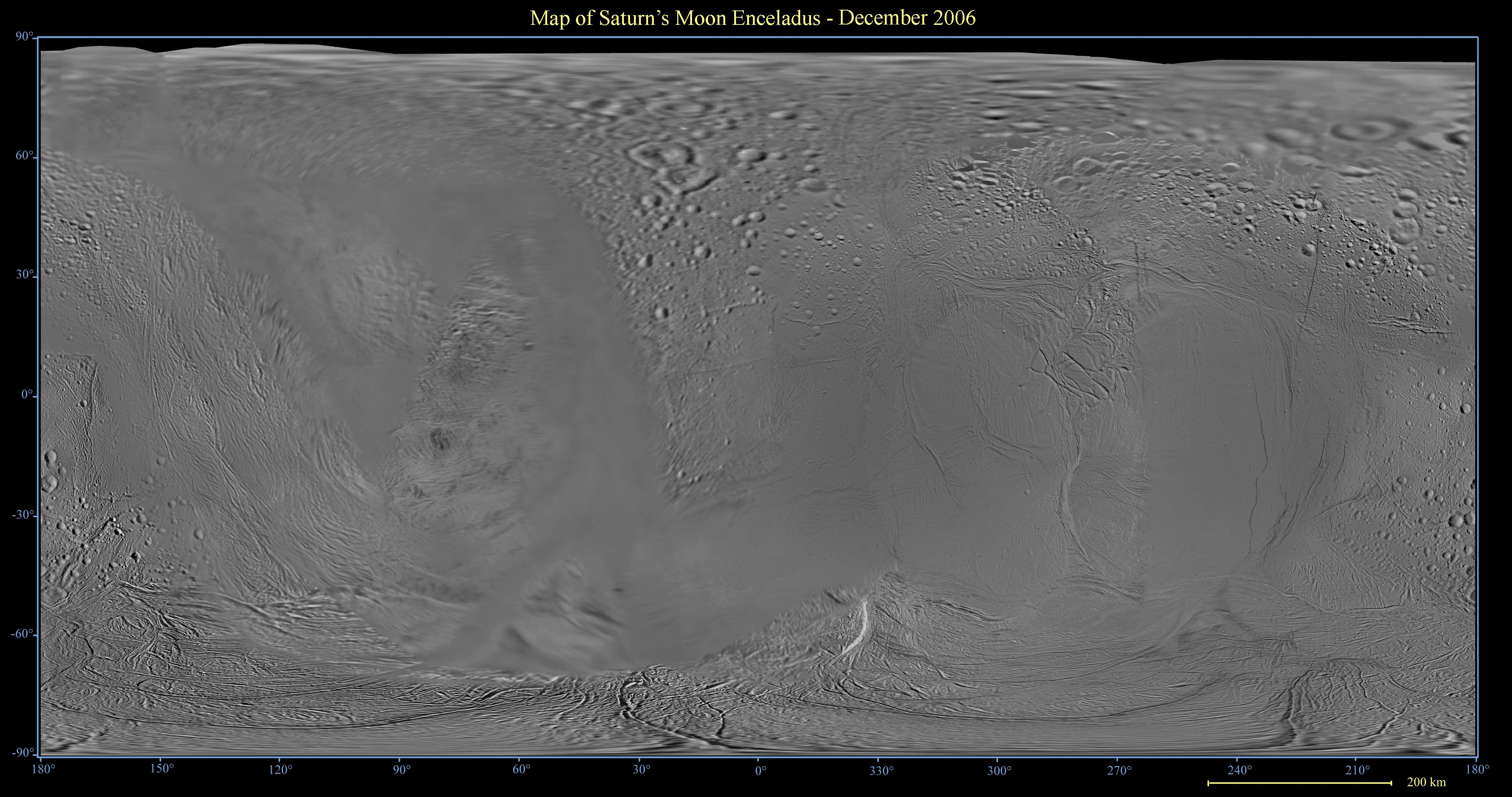 map of Enceladus, full scale